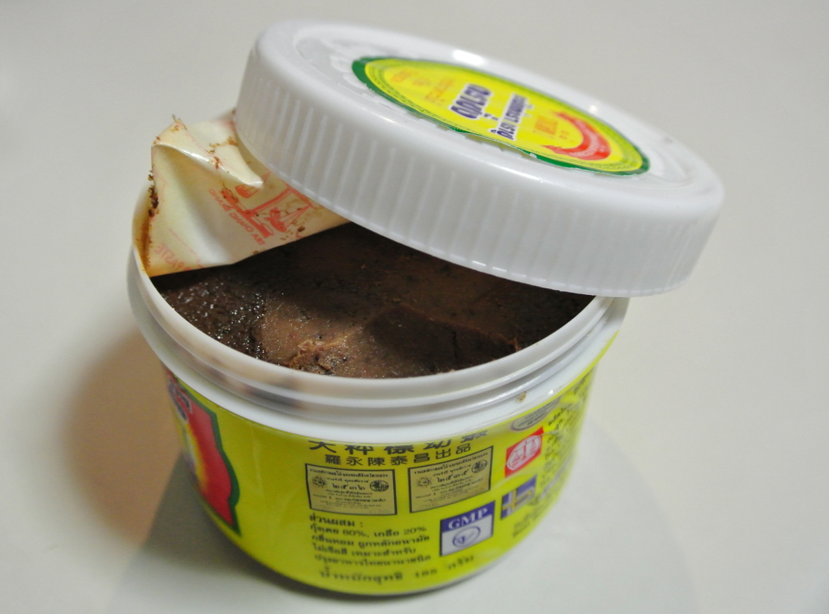 Kapi is shrimp paste in Thailand.